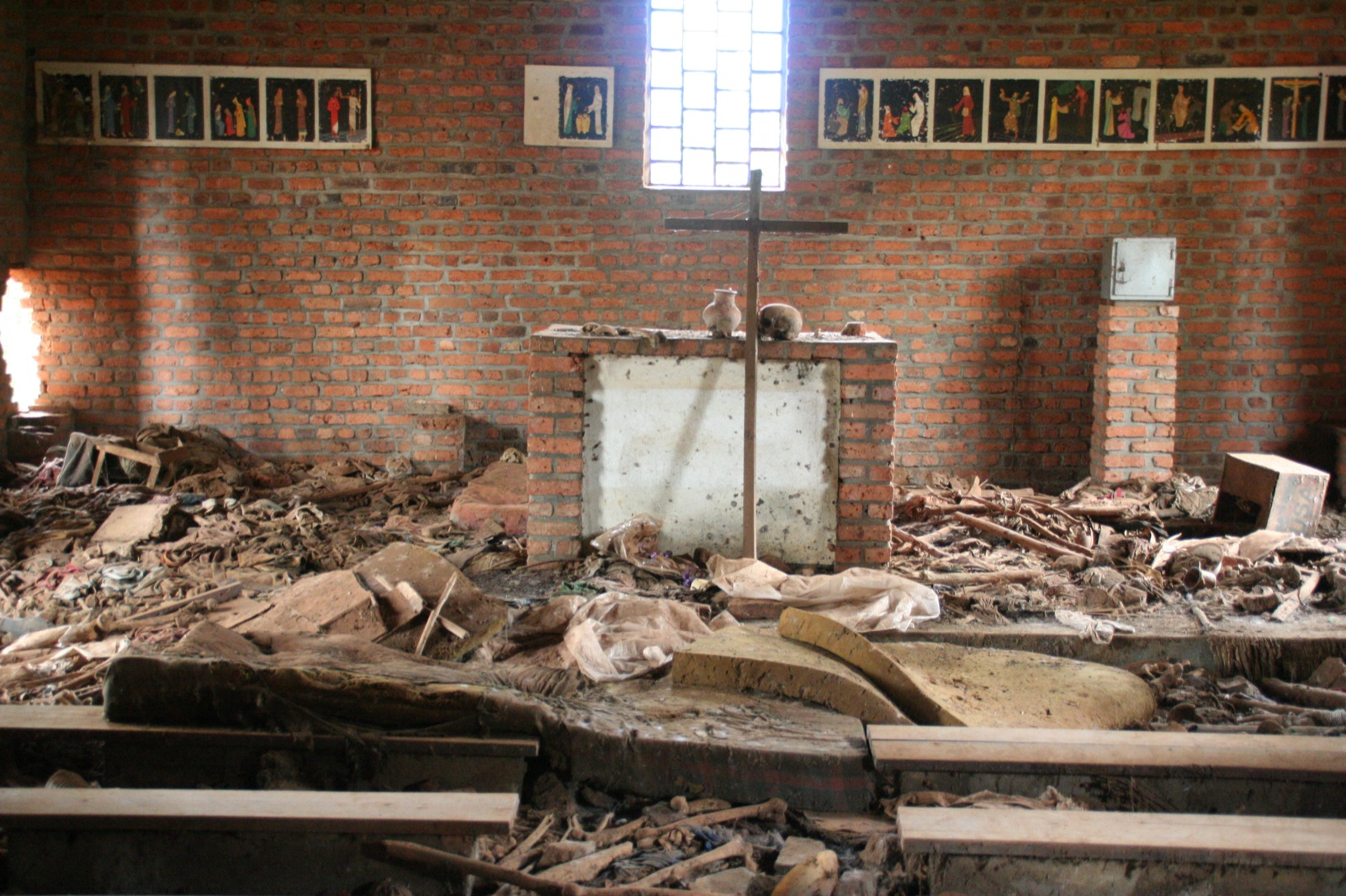 5,000 people seeking refuge in this house of God were killed by grenade, machete, rifle and burning alive. Most of it has been moved into another building, but among the pews remains jawbones, leg bones, childrens shoes, hairpicks, scarves and more. We walked through it up to the front row. It was overwhelming. Notice the Stations of the Cross on the wall overlooking everything.